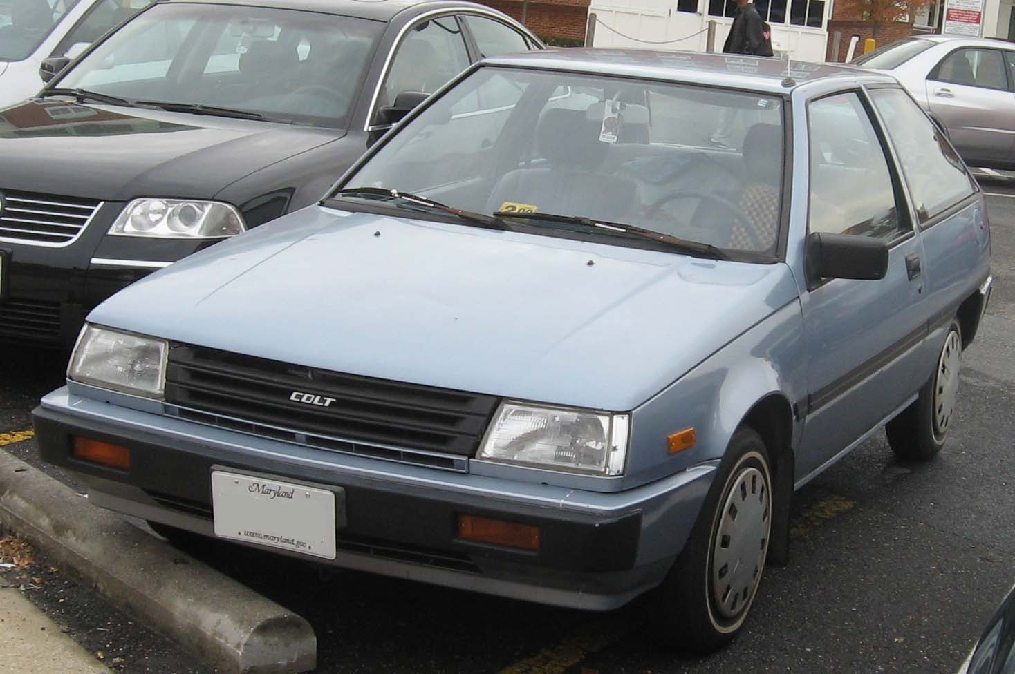 1987-1988 Dodge Colt photographed in College Park, Maryland, USA.